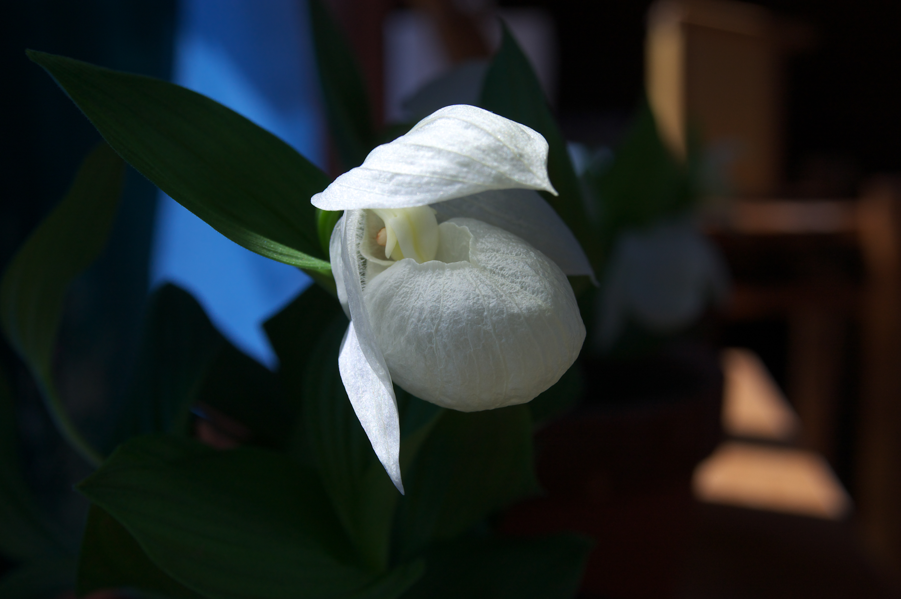 Cypripedium macranthum var. rebunense in Rebun Island, Japan.